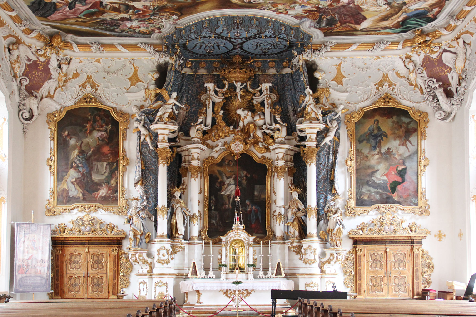 Church of St. Maria de Victoria Native nameSt. Maria de VictoriaLocationIngolstadt, Upper Bavaria, GermanyCoordinates48° 45′ 58″ N, 11° 25′ 14″ E